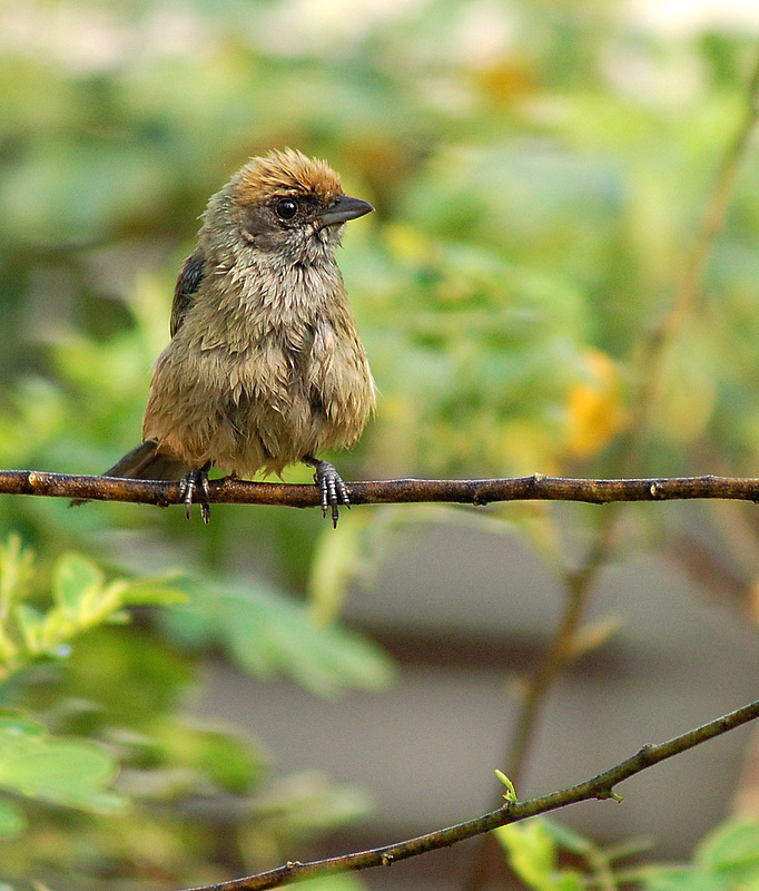 A Burnishe-buff Tanager (Tangara cayana), juvenile